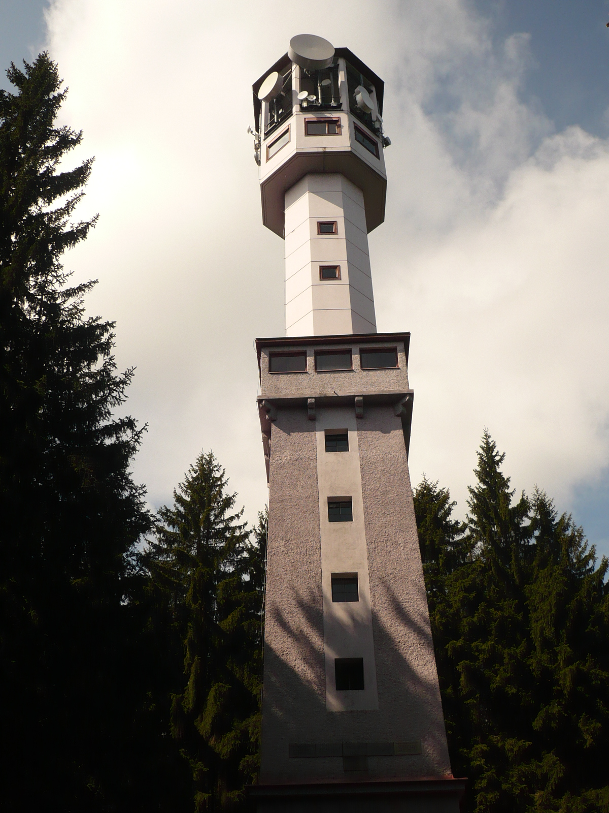 Klostermanns Observation Tower, village Javornik, South Bohemia